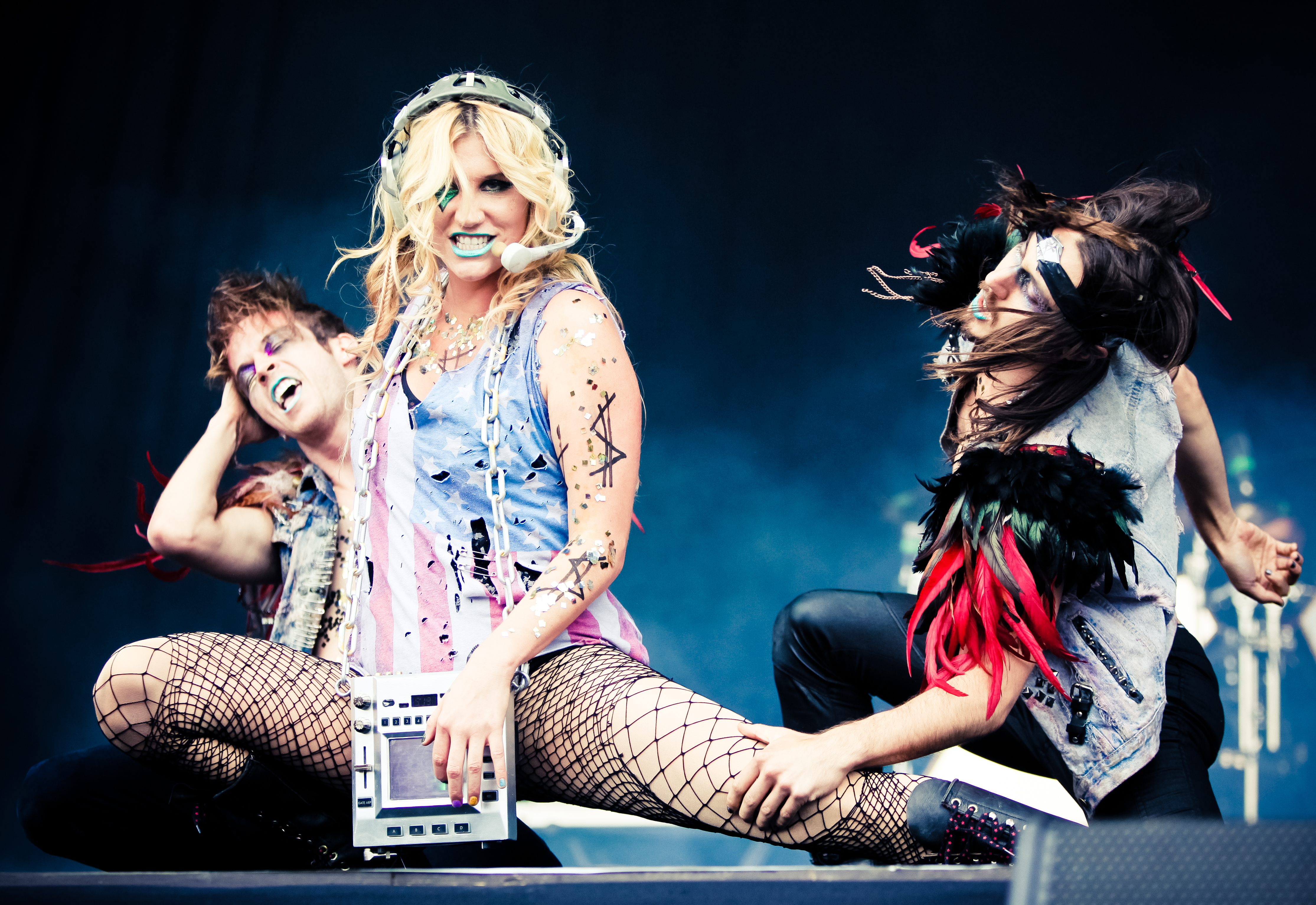 Kesha performing in 2011